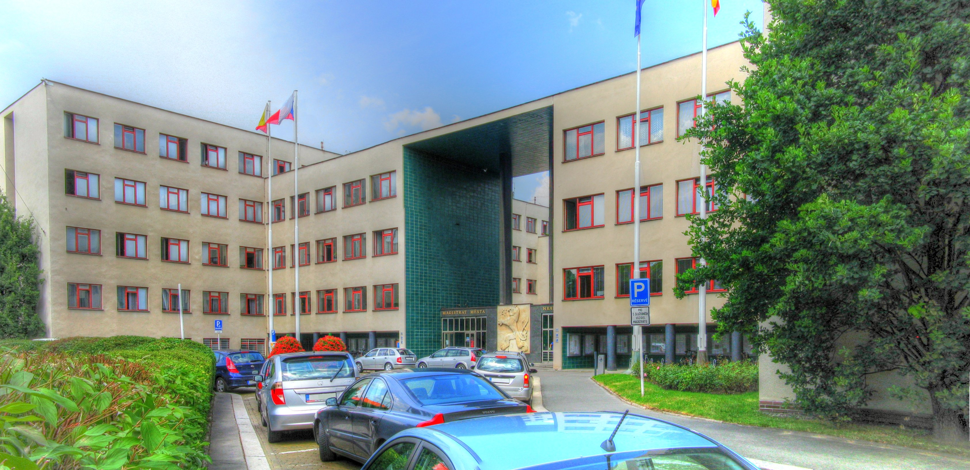 Municipal building of Hradec Králové